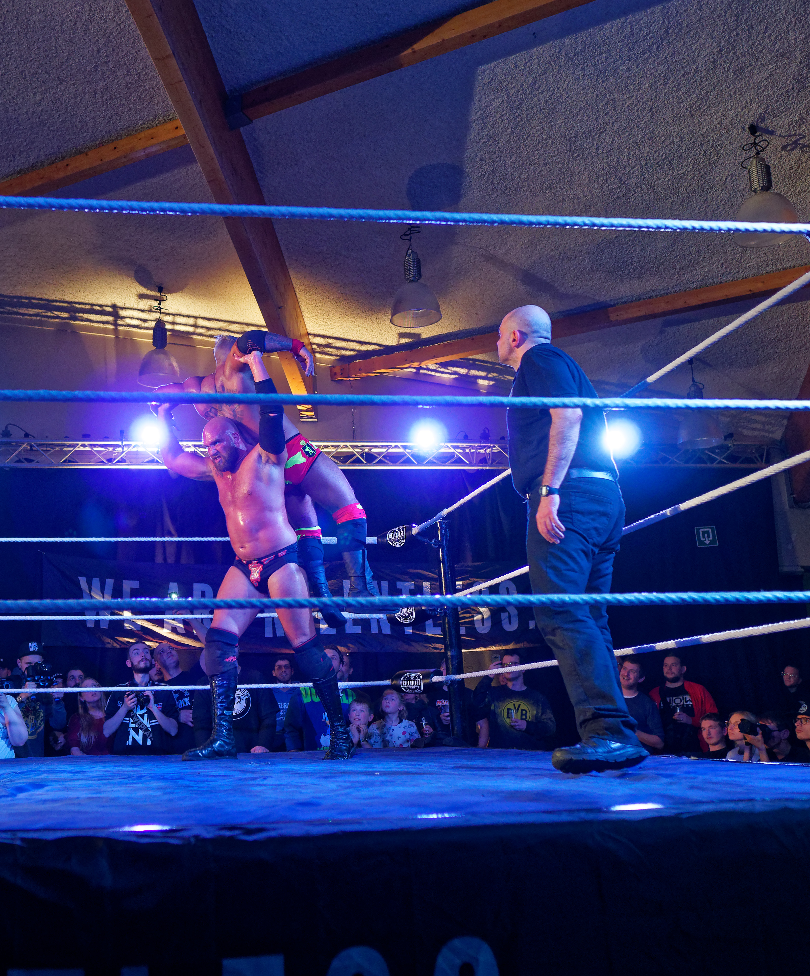 Relentless - Fight Like It's Christmas - Mike D vecchio Vs Cody Hall Mike D vecchio Def. (Pin) Cody Hall ( After the sold out first show, Relentless will be back in Antwerp December 13th! )